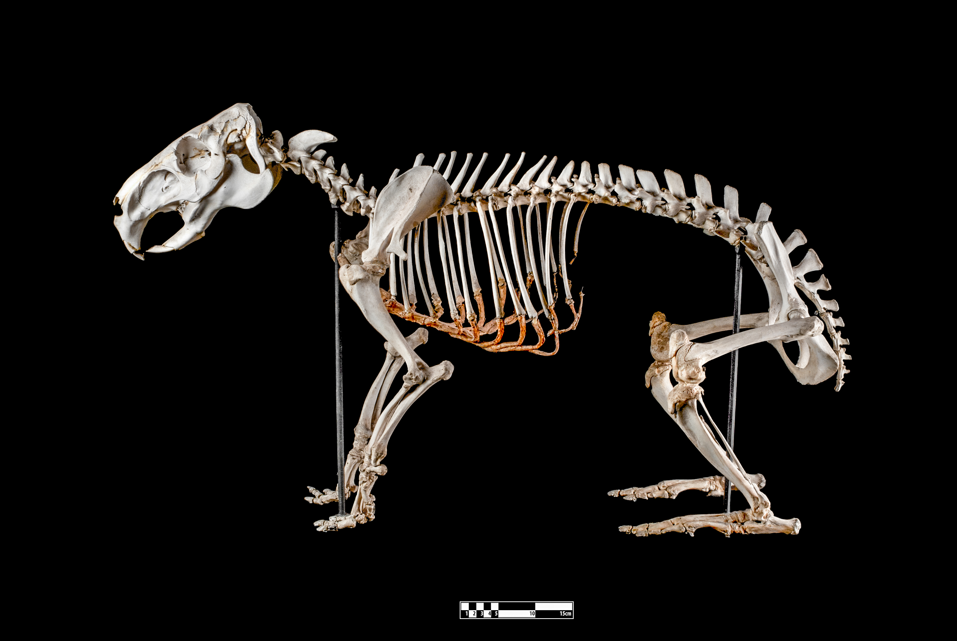 Capybara (Hydrochoerus hydrochaeris). Specimen of skeleton of the world's largest rodent prepared by the bone maceration technique and on display at the Museum of Veterinary Anatomy FMVZ USP. This file was published as the result of a partnership between the Museum of Veterinary Anatomy FMVZ USP, the RIDC NeuroMat and the Wikimedia Community User Group Brasil. This GLAM project is reported. Photography: Museum of Veterinary Anatomy FMVZ USP. Author: Wagner Souza e Silva.